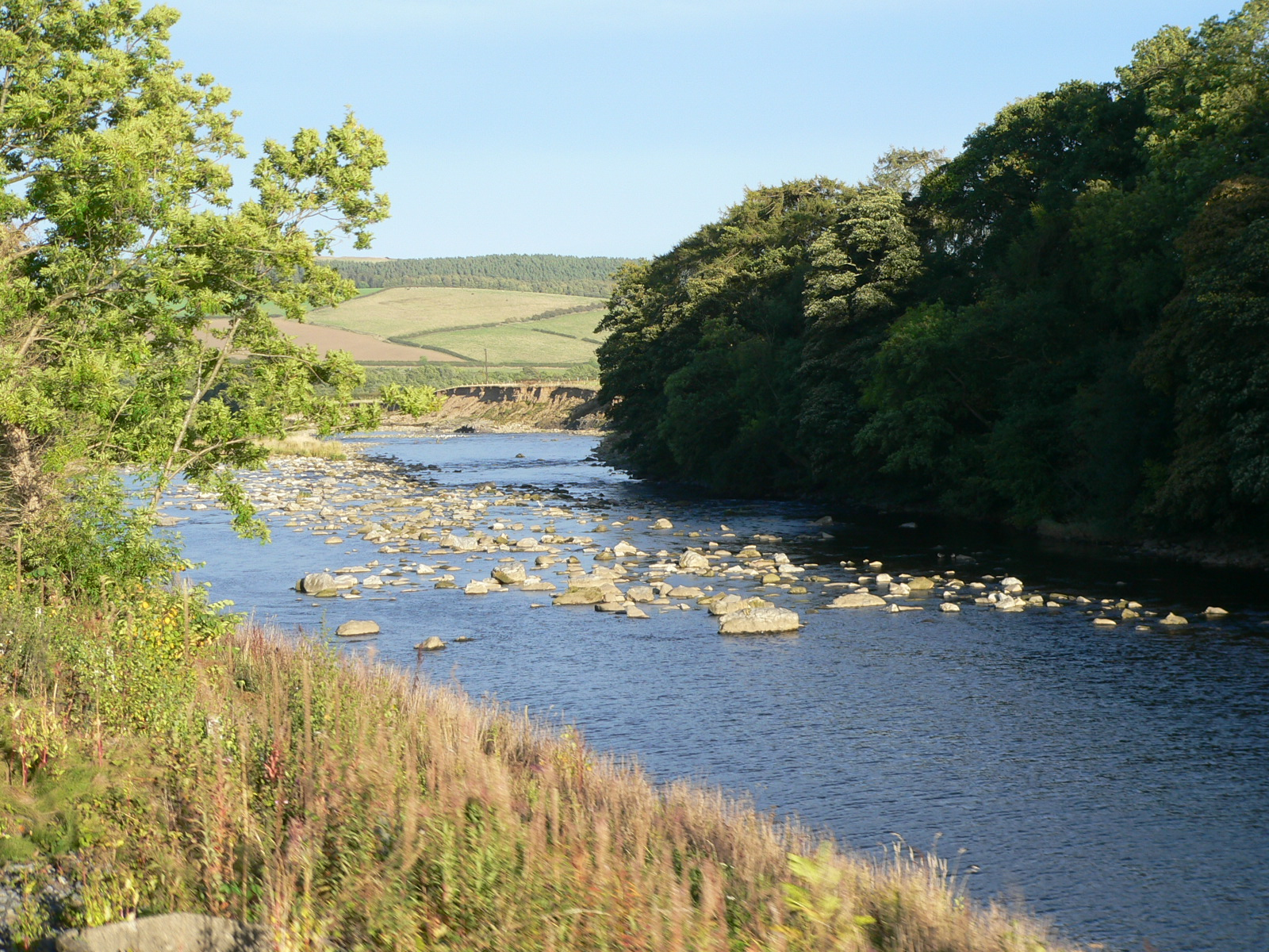 The view from the front of Coach A on a GNER Intercity 125 as it crosses the River Tyne on a service along the Tyne Valley Line between Newcastle upon Tyne and Carlisle.